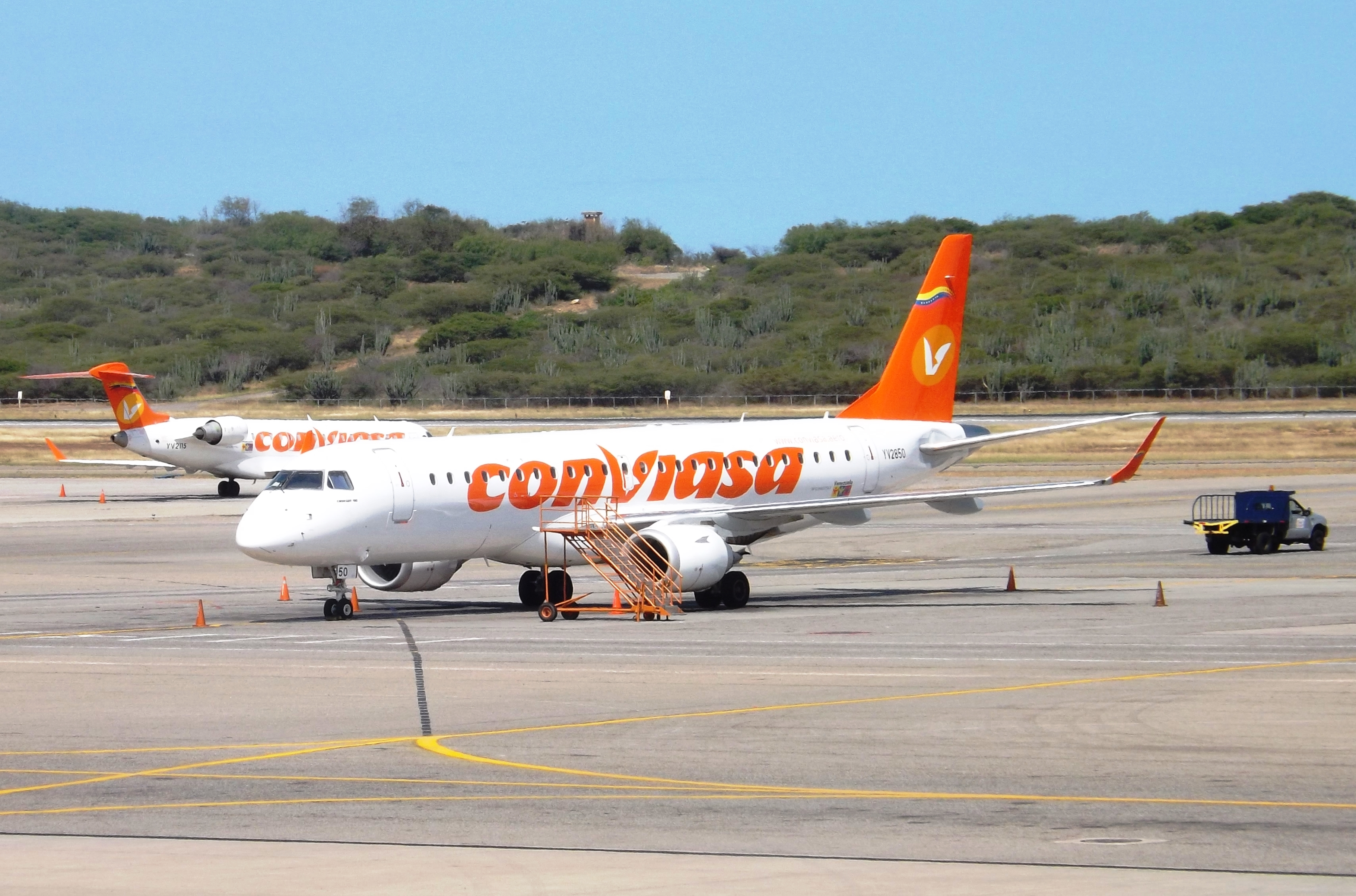 Conviasa Embraer ERJ-190AR at Simón Bolívar International Airport, Venezuela. Registration nuber: YV2850